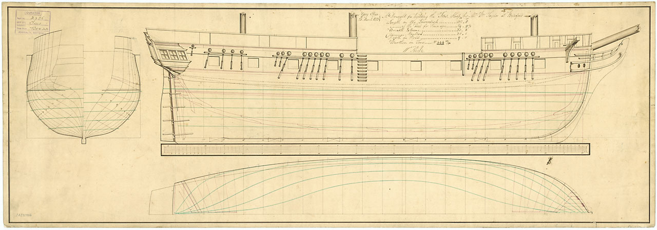 TEES 1817 lines